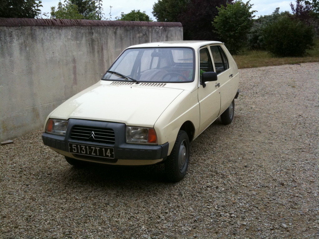 1979 Citroën Visa with 652cc engine.